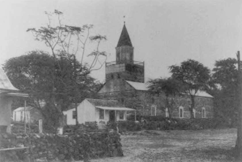 Mokuaikaua Church, ca. 1890.